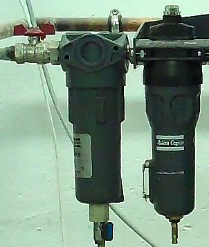 Water separator and compressed air filter